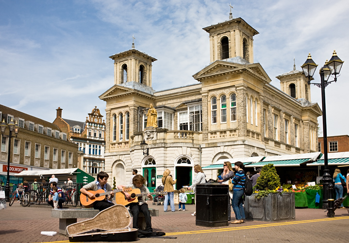 Historic Market Square in Kingston-Upon-Thames, England, UK